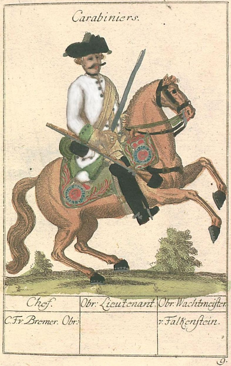 Uniform of 2nd Cav Rgt Hanover 1763